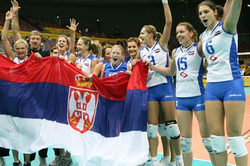 Serbian women's volleyball team cheering with flag, 2006